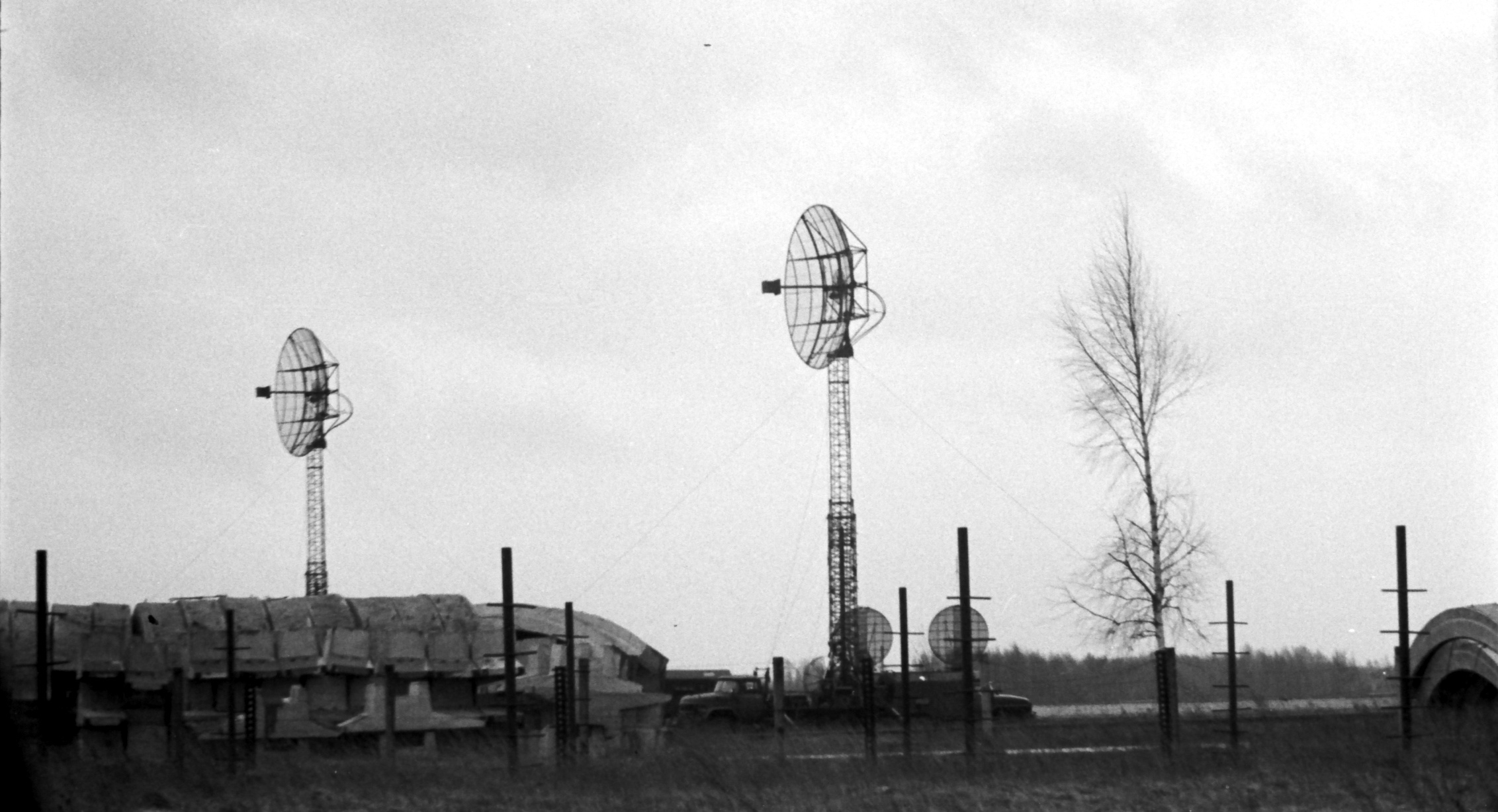 Zokniai military airport 1990 in Šiauliai, Lithuania